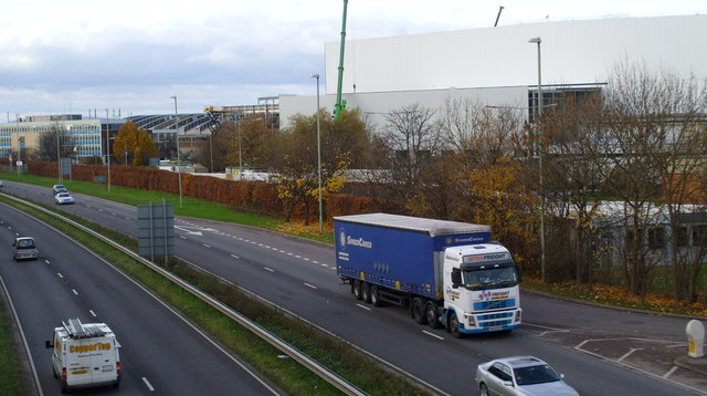 Gloucester Barnwood Bypass Looking towards the Ice Cream factory. The construction in the background is a cold store.